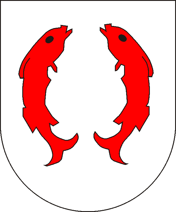 coat of arms county of Wernigerode